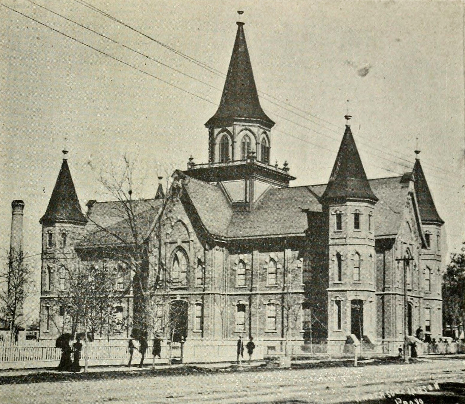 This is a photograph of the Provo Tabernacle of The Church of Jesus Christ of Latter-day Saints, published in 1914 in the Improvement Era magazine.